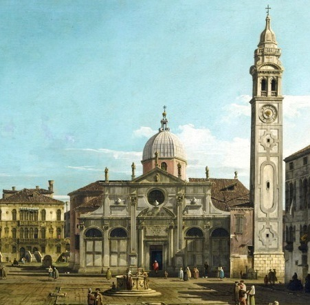 Painting of the Church of Santa Maria Formosa, Venice cropped to highlight the church and its steeple